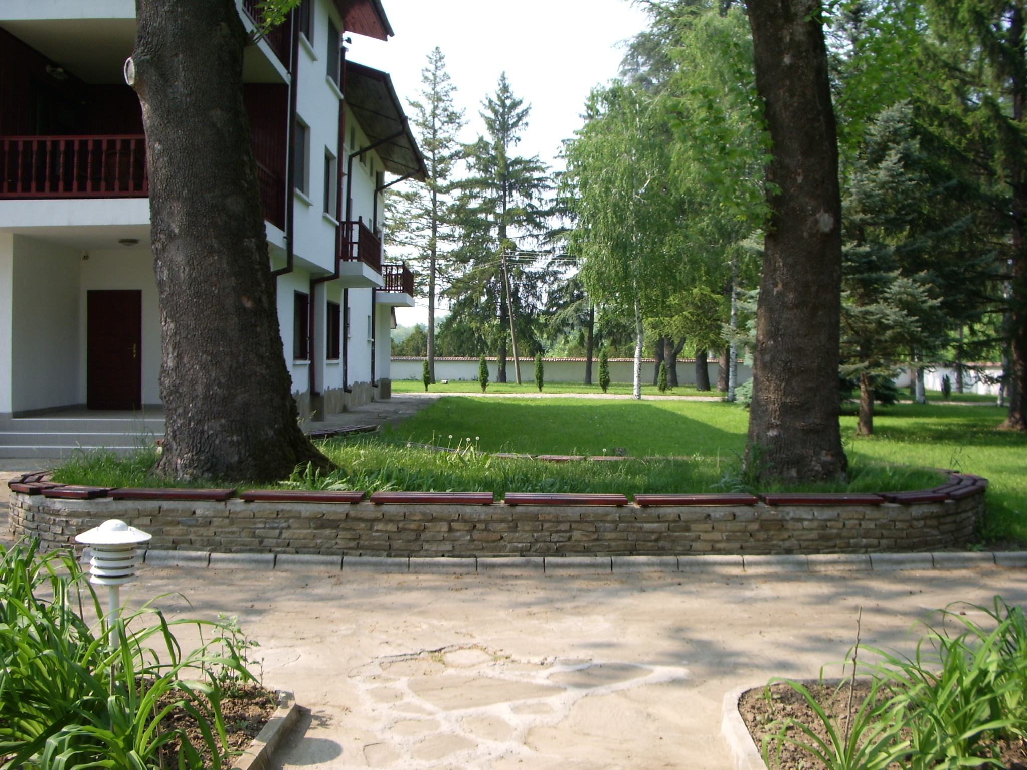 Park Ormana (Loven Dom), Yambol, Bulgaria